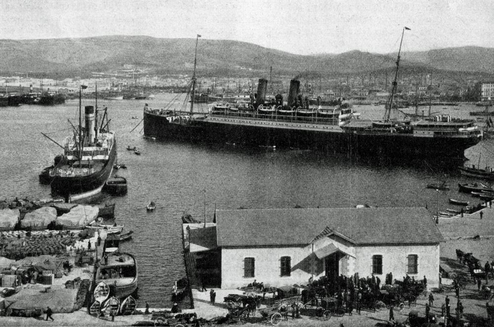 Piraeus harbour in 1913.